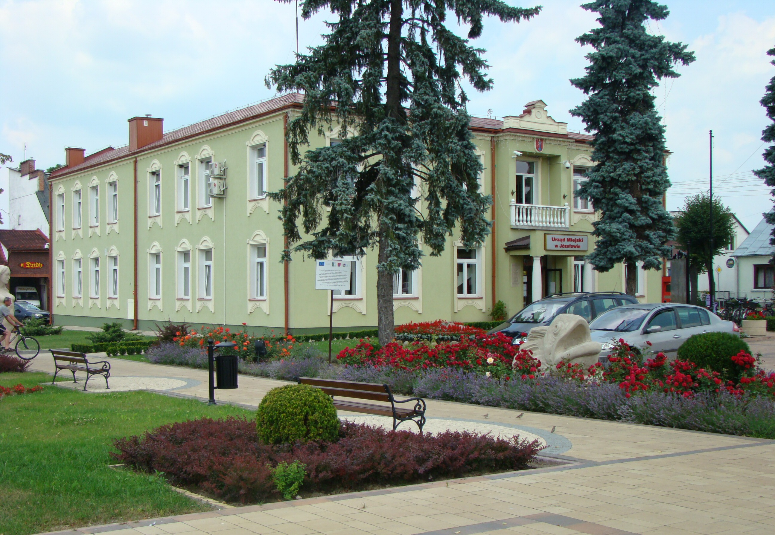 City Council in Józefów, Poland.